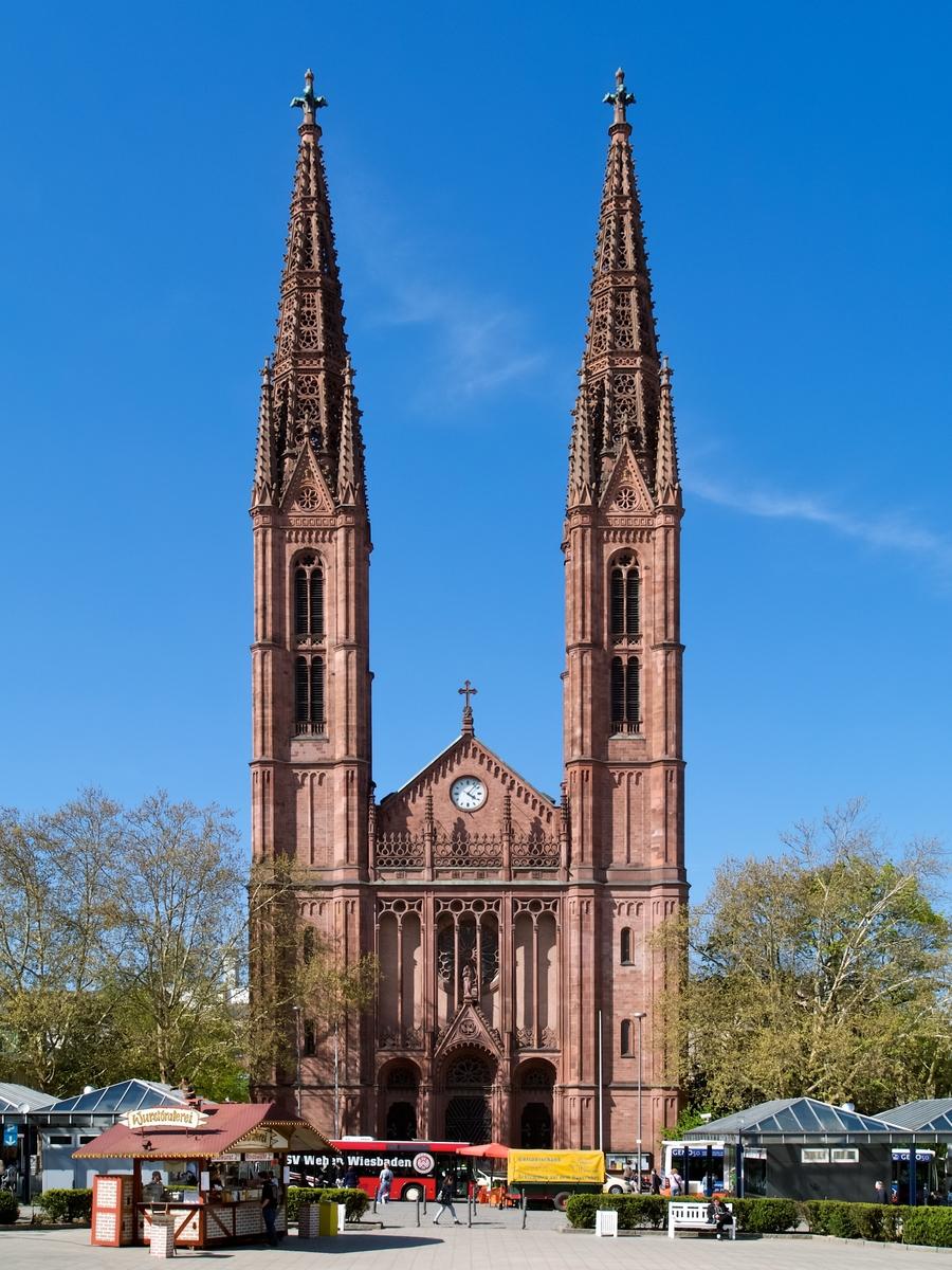 The St. Bonifatius Church Wiesbaden in April 2010.